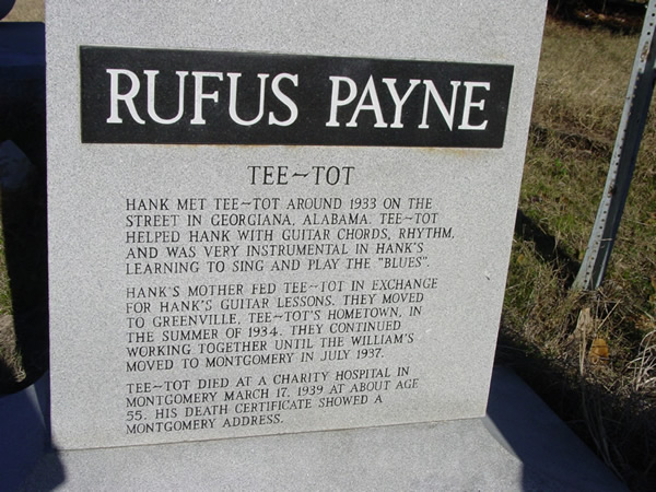 Source: JugHeadAL 20:44, 25 October 2006 (UTC) This photo was taken at the grave of Rufus Payne on Saturday, January 14, 2006, 3:29:34 PM in Montgomery, Alabama.